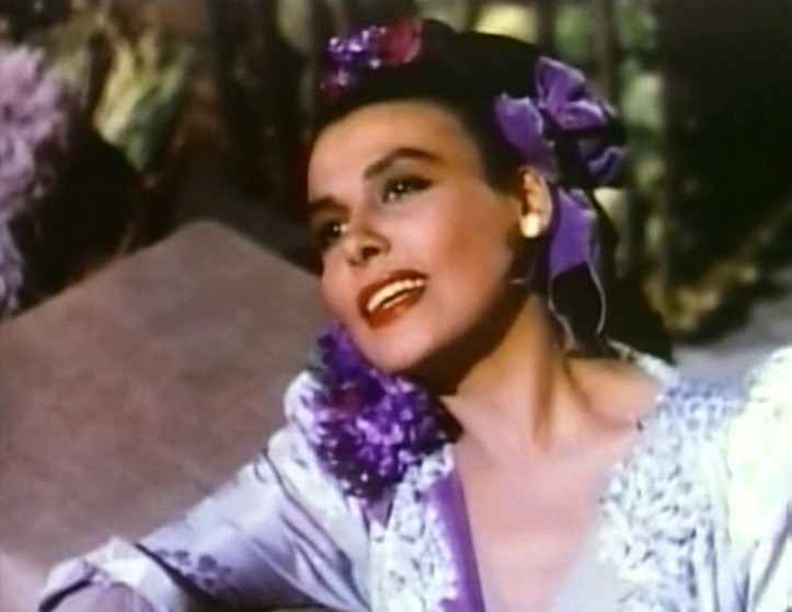 Cropped screenshot of Lena Horne from the film Till the Clouds Roll By.